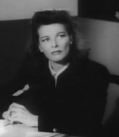 Cropped screenshot of Katharine Hepburn from the film Stage Door Canteen.